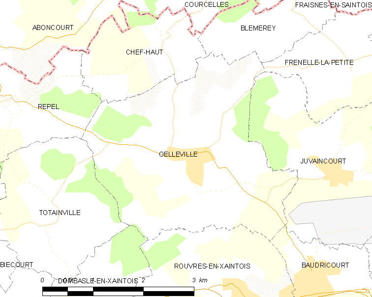 Map of French municipality Oëlleville